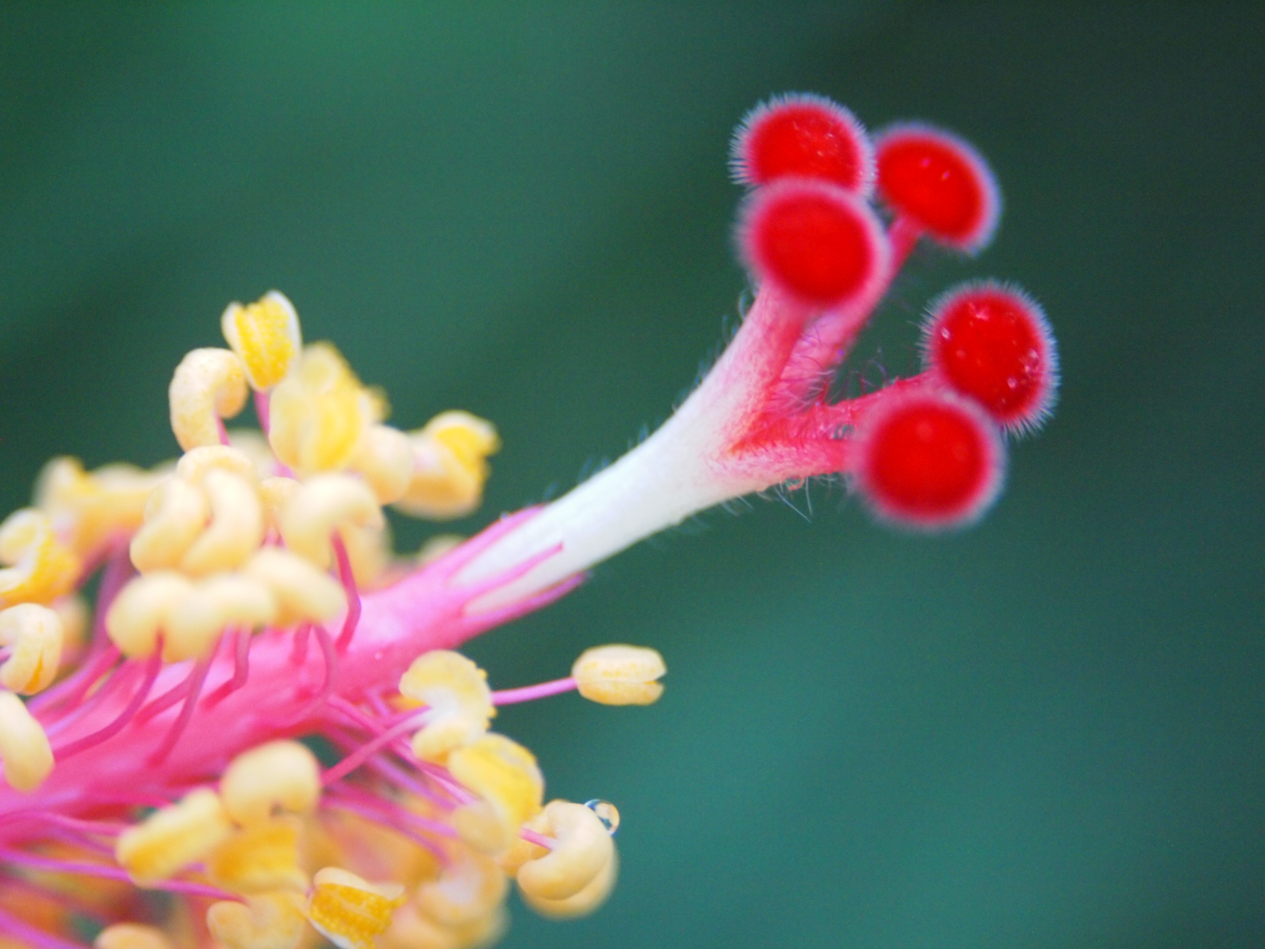 Hibiscus in Malaysia. Macro shot